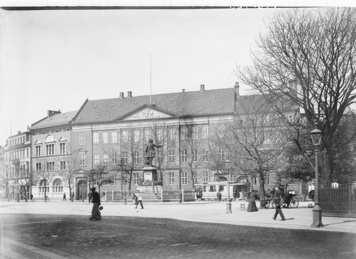 Landmandsbankens buildings at Holmens Kanal in Copenhagen, Denmark